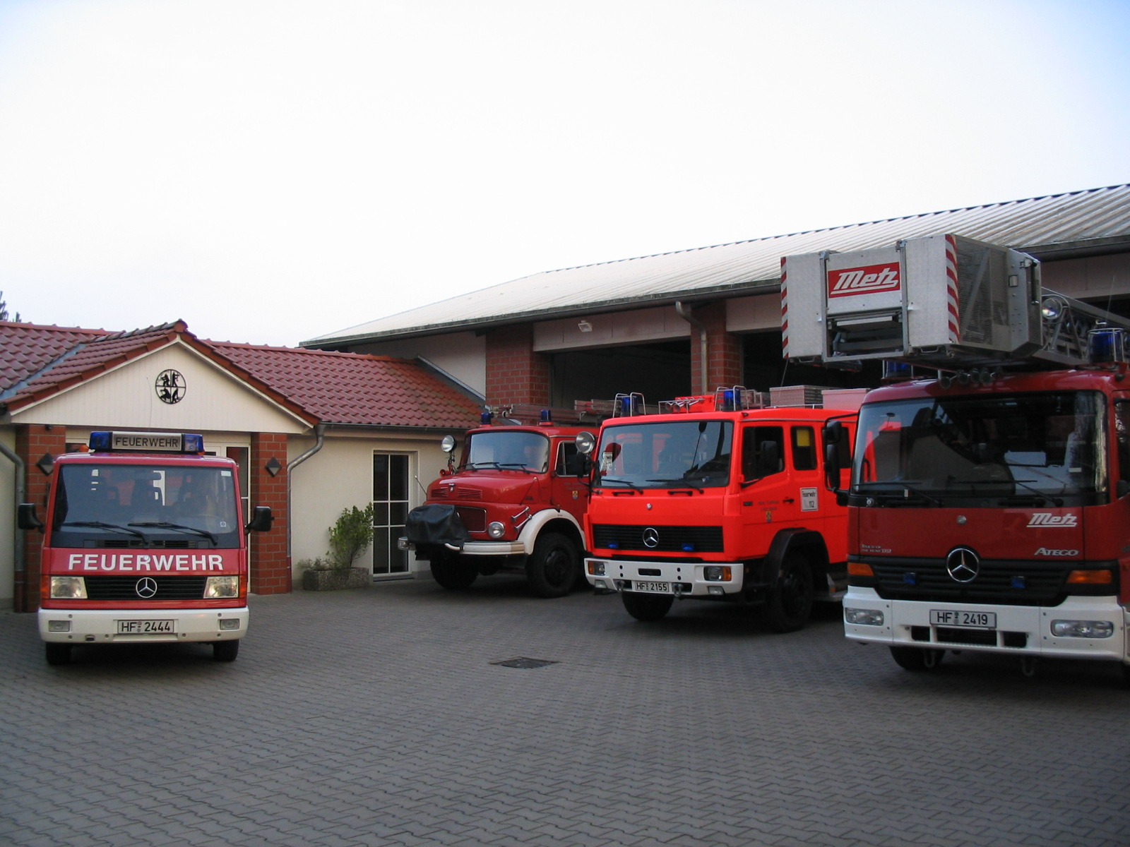 Fire station in town of Enger, District of Herford, North Rhine-Westphalia, Germany.